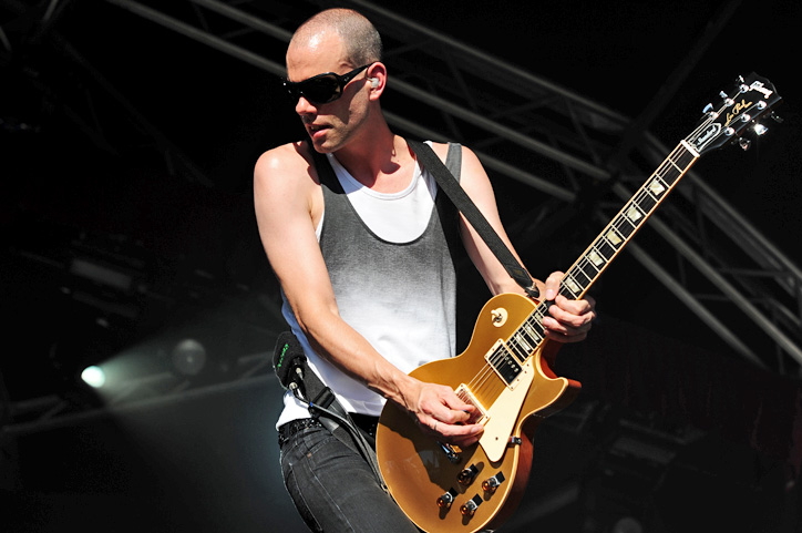 Soundwave Festival 2010